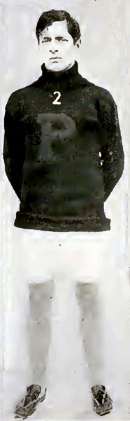 William Verner, athlet, medalwinner at the 1904 Olympic Games photography, adapted reproduction, no restrictions on use Copyright: free of charges